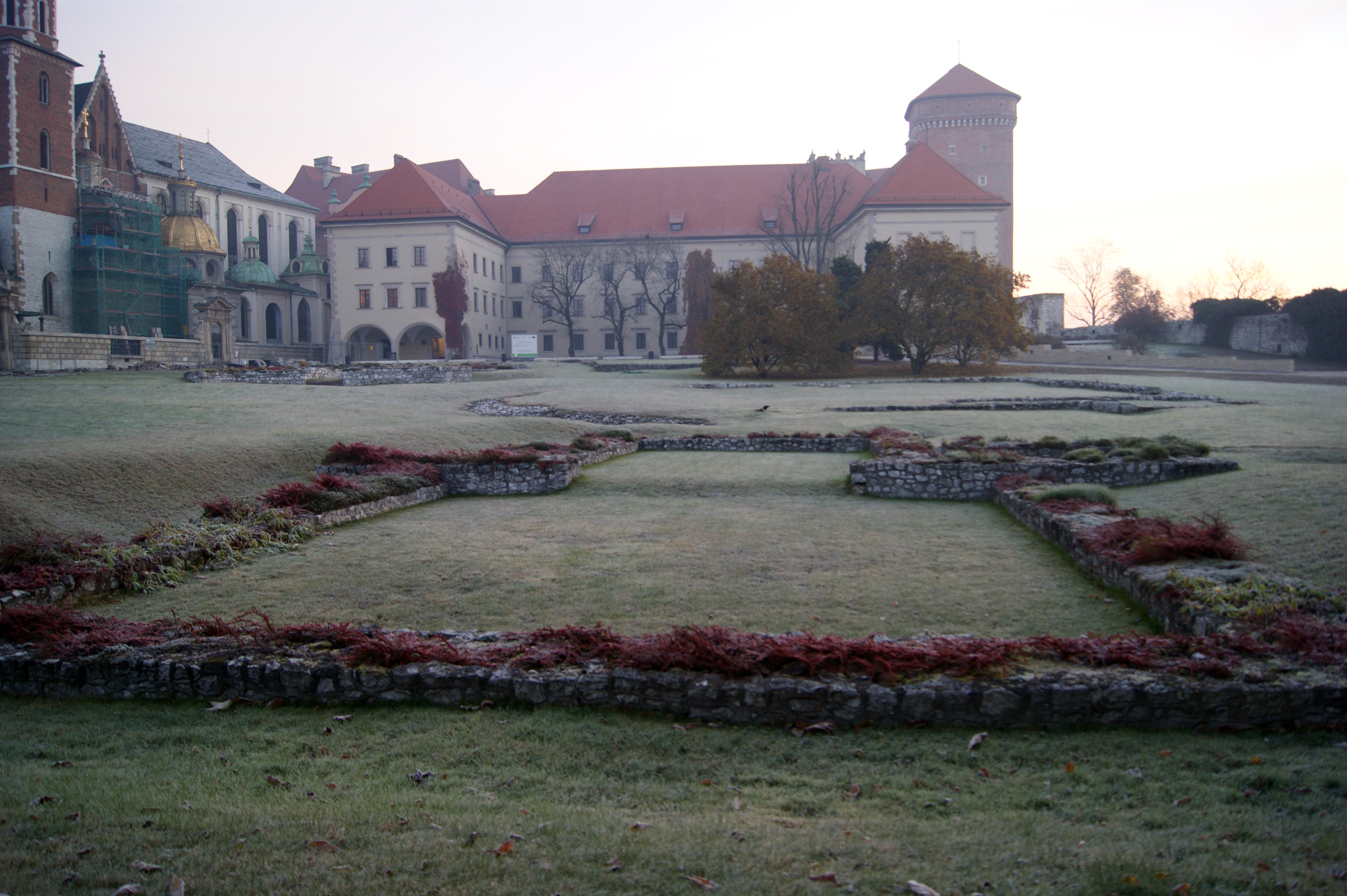 Wawel hill,former StGeorge church,Krakow,Poland